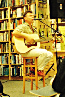 Glen Matlock playing a solo show at Borders bookshop in Brighton, 2005-03-13. Cropped and sharpened from original.